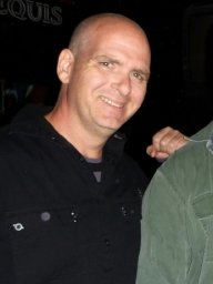 Jason D. Anderson cropped from Troika Games founders photo